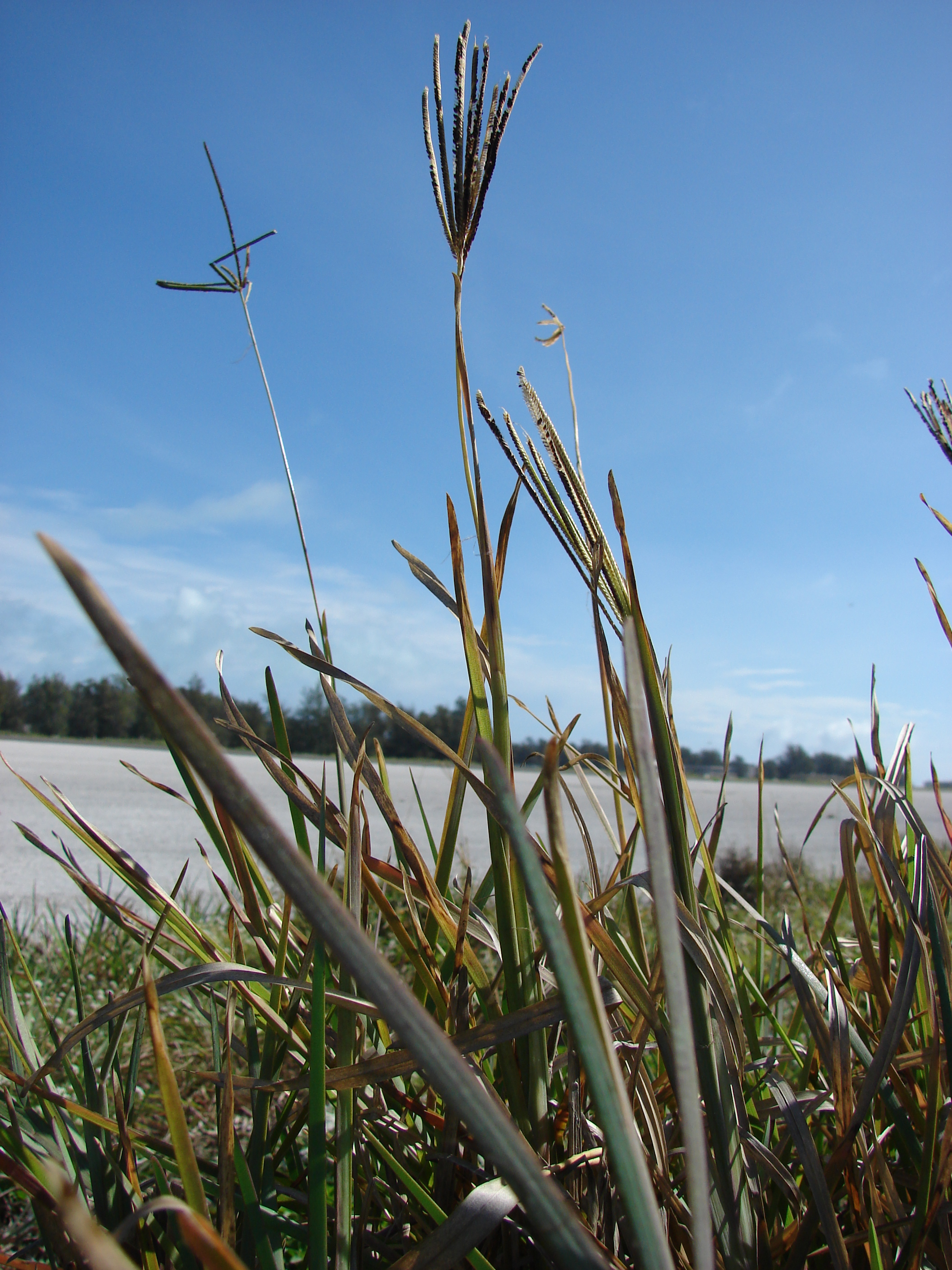 Eustachys petraea (fruiting habit). Location: Midway Atoll, South Beach Sand Island